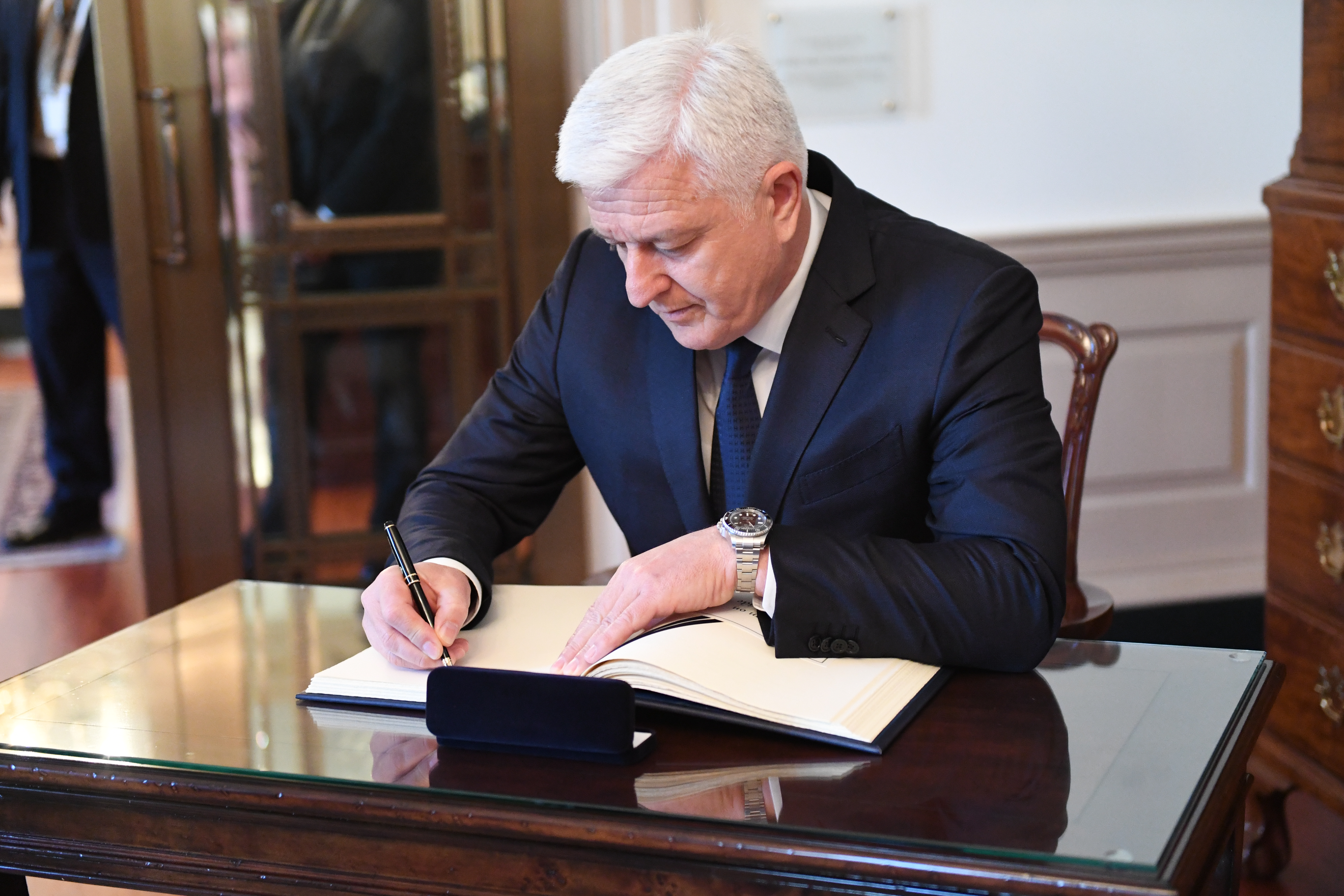 Montenegrin Prime Minister Dusko Markovic signs U.S. Secretary of State Rex Tillerson's guestbook before their meeting at the U.S. Department of State in Washington, D.C., on May 8, 2017. [State Department photo/ Public Domain]